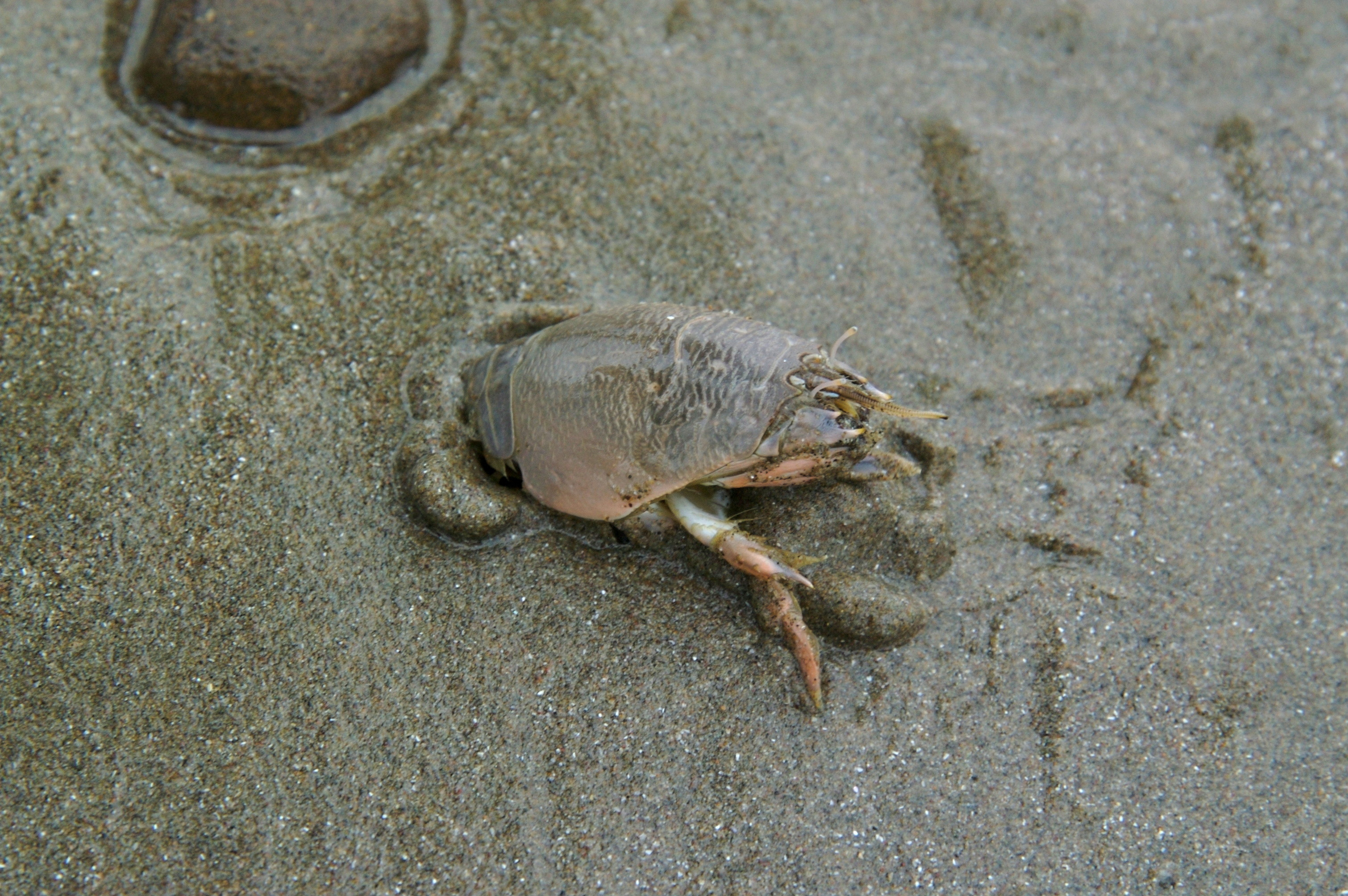 Emerita analoga. "This crab is found on the sandy beaches, and will soon bury itself so that just its antennae will be in the water, which helps it collect food. It is also called the Pacific Sand Crab."